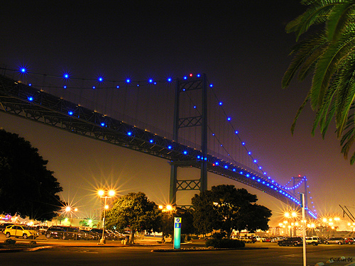 ©2006 Kris Kros All rights reserved There has always been a need to cross over the main channel of the Los Angeles Harbor, even in the early 1870's, when the first ferry service consisted of a rowboat that made the trip to Terminal Island only as passengers were available. Ferry service was the only means of transport for decades. From 1937 until 1957, various proposals were considered regarding construction of a tube tunnel connecting the Harbor and Long Beach freeways. Engineers concluded that a four-lane bridge could be built for slightly more than the two-lane tube. Completed in 1963, "San Pedro's Golden Gate" was the first bridge of its kind to be constructed on pilings. Construction required 92,000 tons of Portland cement, 13,000 tons of lightweight concrete, 14,100 tons of steel and 1,270 tons of suspension cable. It is designed to withstand winds of 90 miles per hour, double that required by code. The overall length of the bridge is 6,050 feet, with a main suspension span of 1,500 feet and 500-foot spans on either side. The towers are 365 feet high. Named for one of San Pedro's "own," an orphan from the streets and wharves who went on to become a State Assemblyman, it was The Hon. Vincent Thomas who cut the ribbon at the dedication ceremony. The dramatic green bridge has been designated as the official landmark welcoming visitors to Los Angeles.